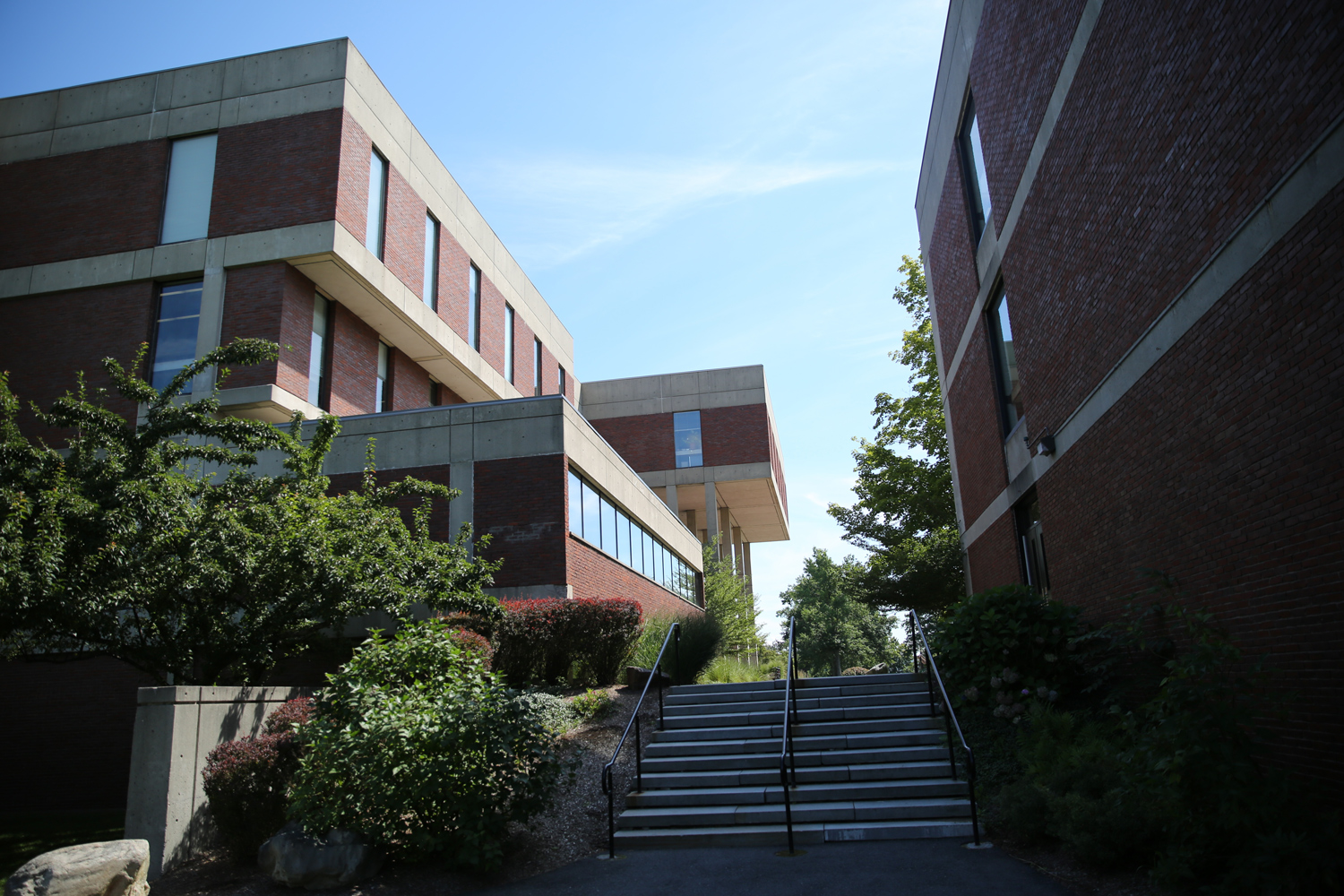 Steps between the Harold F. Johnson Library on the left and the Cole Science Center on the right, Hampshire College campus, Amherst, Massachusetts